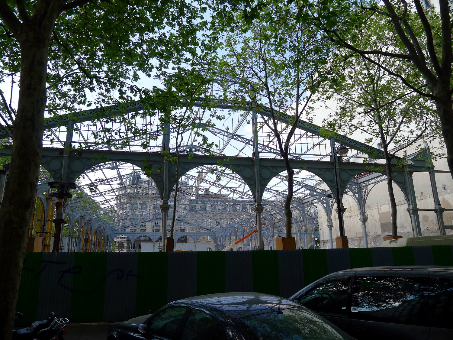 Carreau du Temple (works en 2011) - Paris